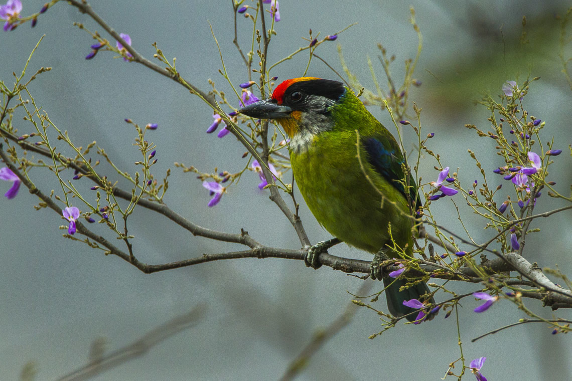 Golden-throated Barbet - Bhutan_S4E0602